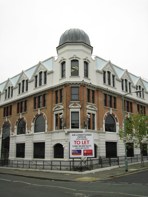 Montefiore House, Montefiore Road, Hove Vacated by Legal & General in 2007, who moved to City Park by Hove Park and the Greyhound Stadium